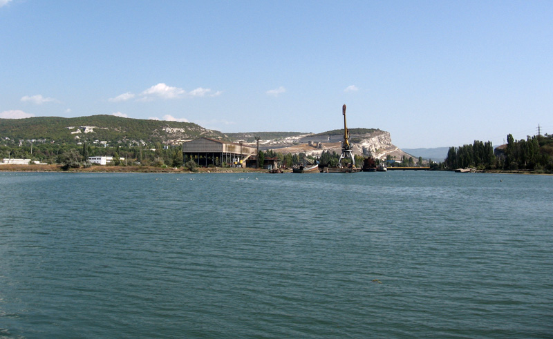 End of Sevastopol bay near Inkerman